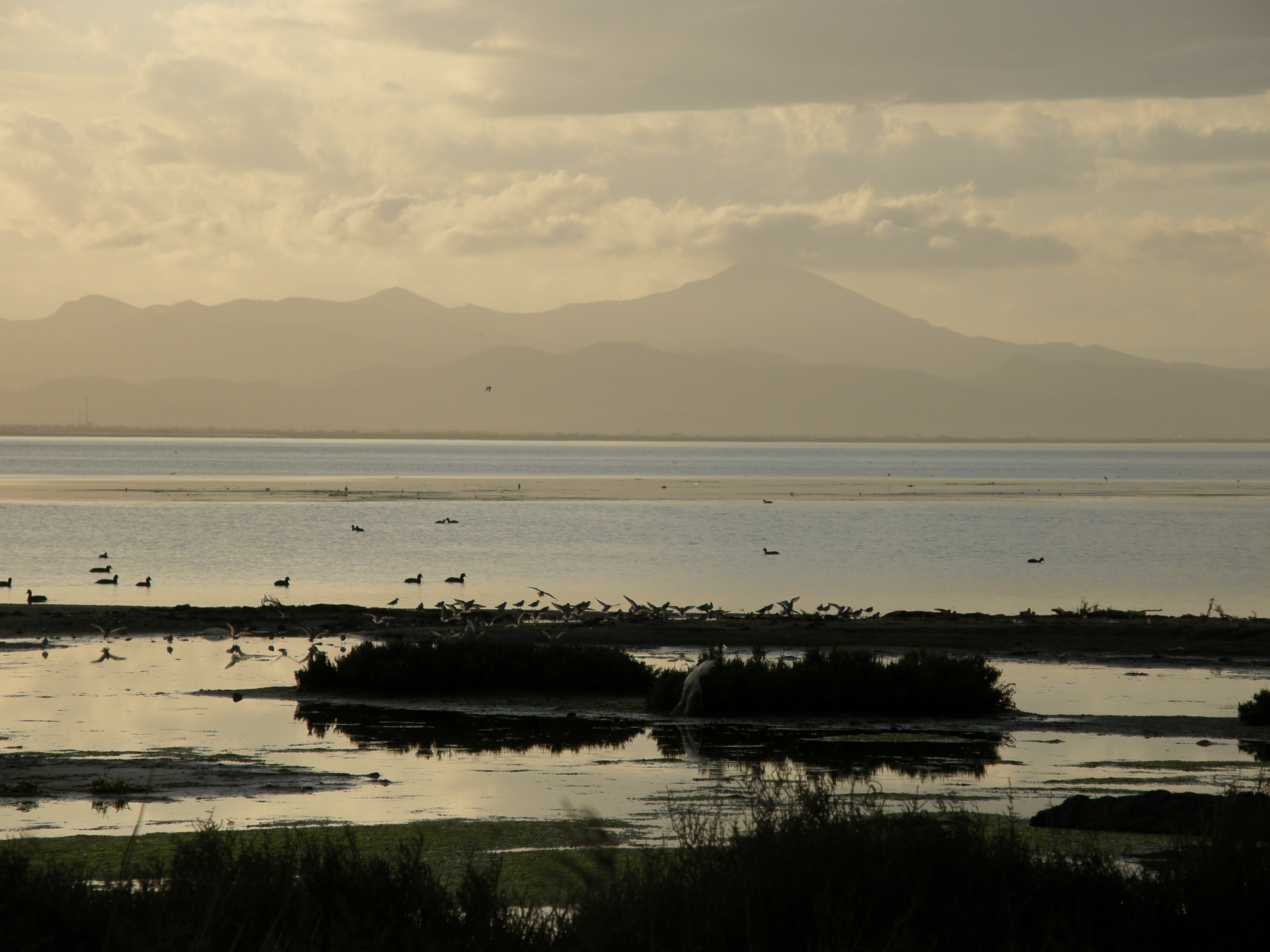 Nador Lagoon (Morocco)